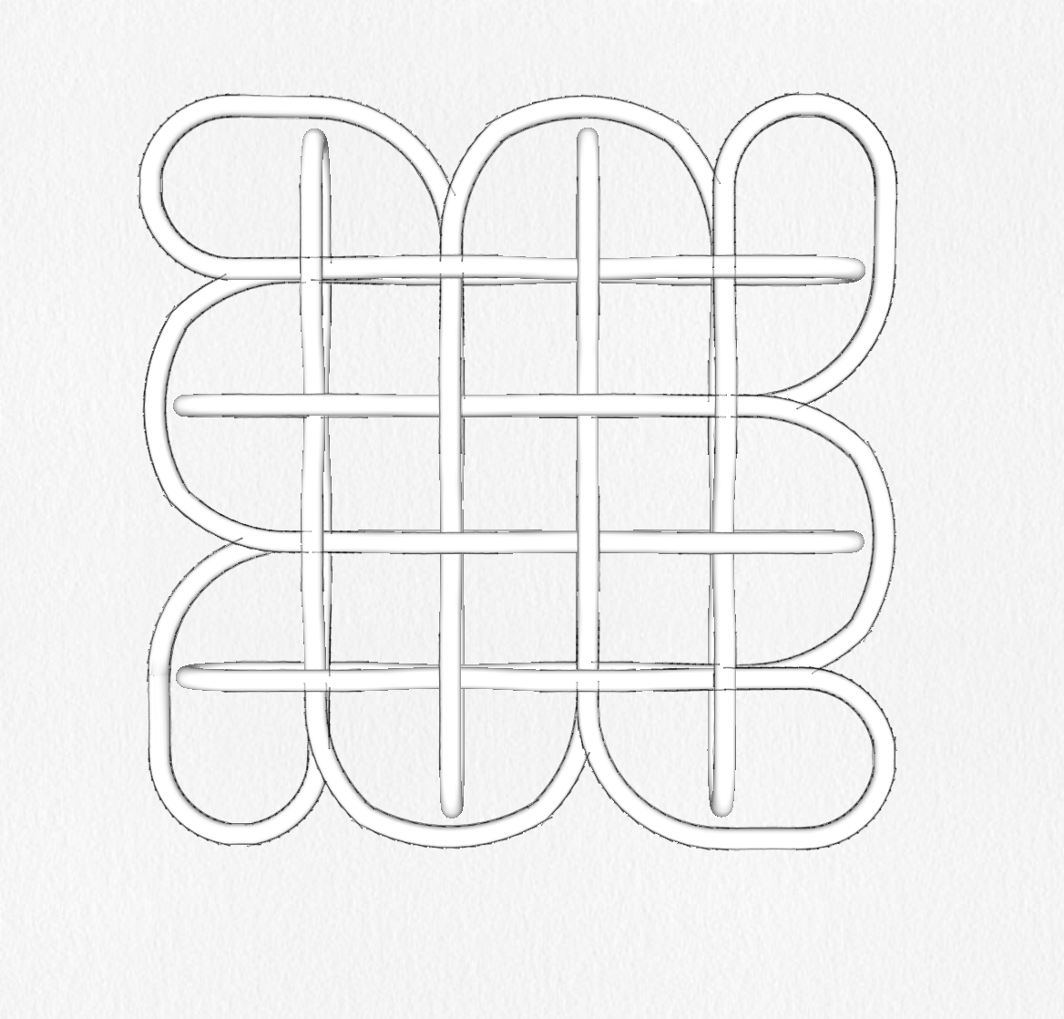 3d structure of Panchang knot topview